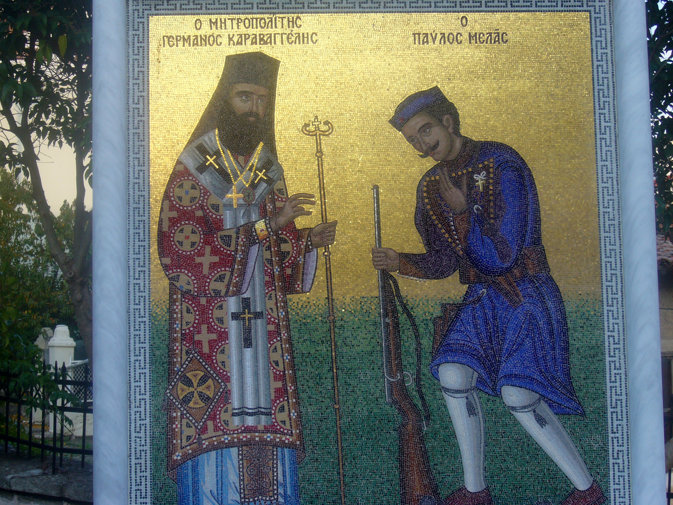 Metropolitan Germanos Karavangelis blesses Pavlos Melas. Mosaic in Kastoria, Greece.